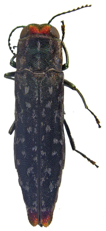 Agrilus picturatus Jendek 2013, holotype.